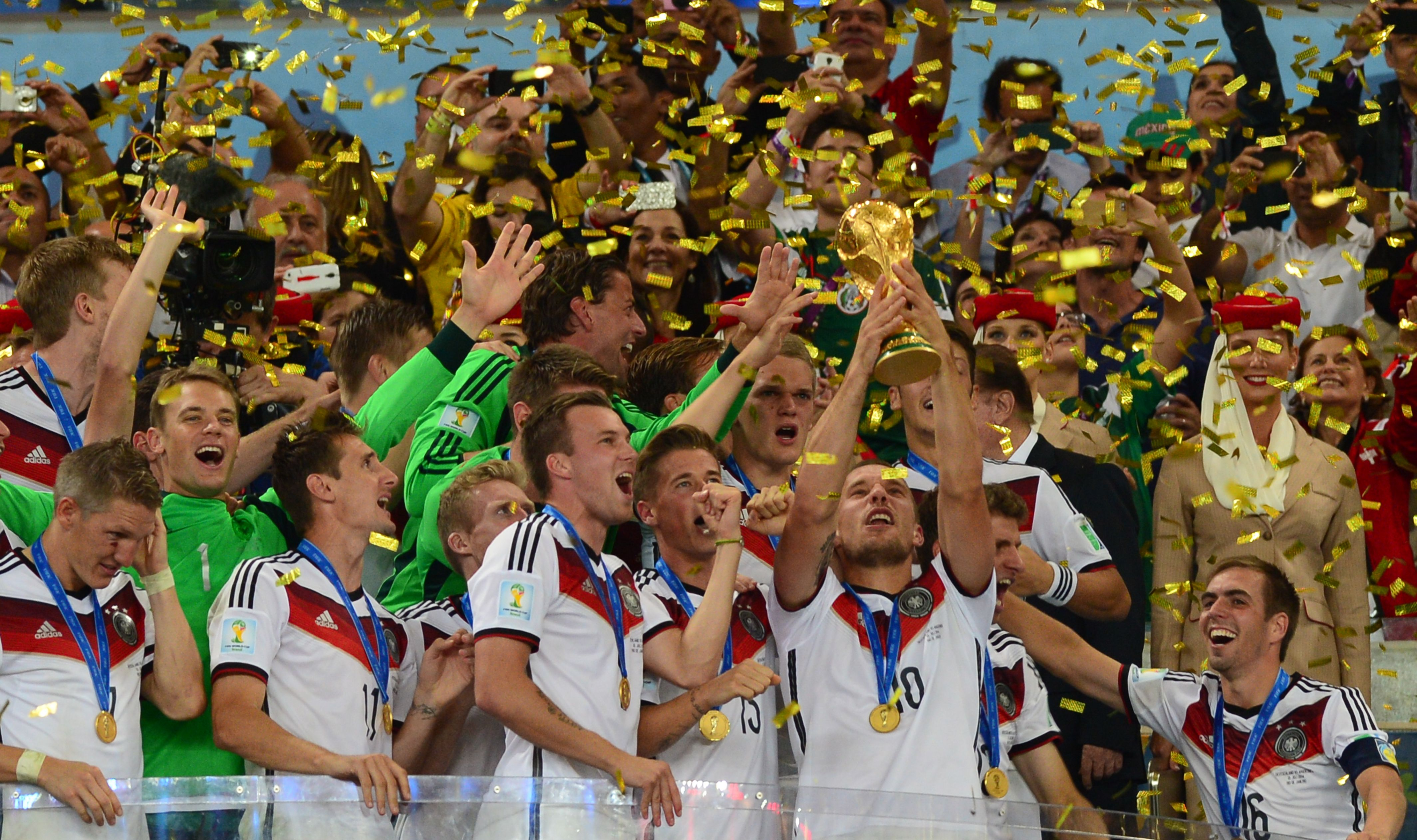 Award ceremony of the World Cup in Brazil